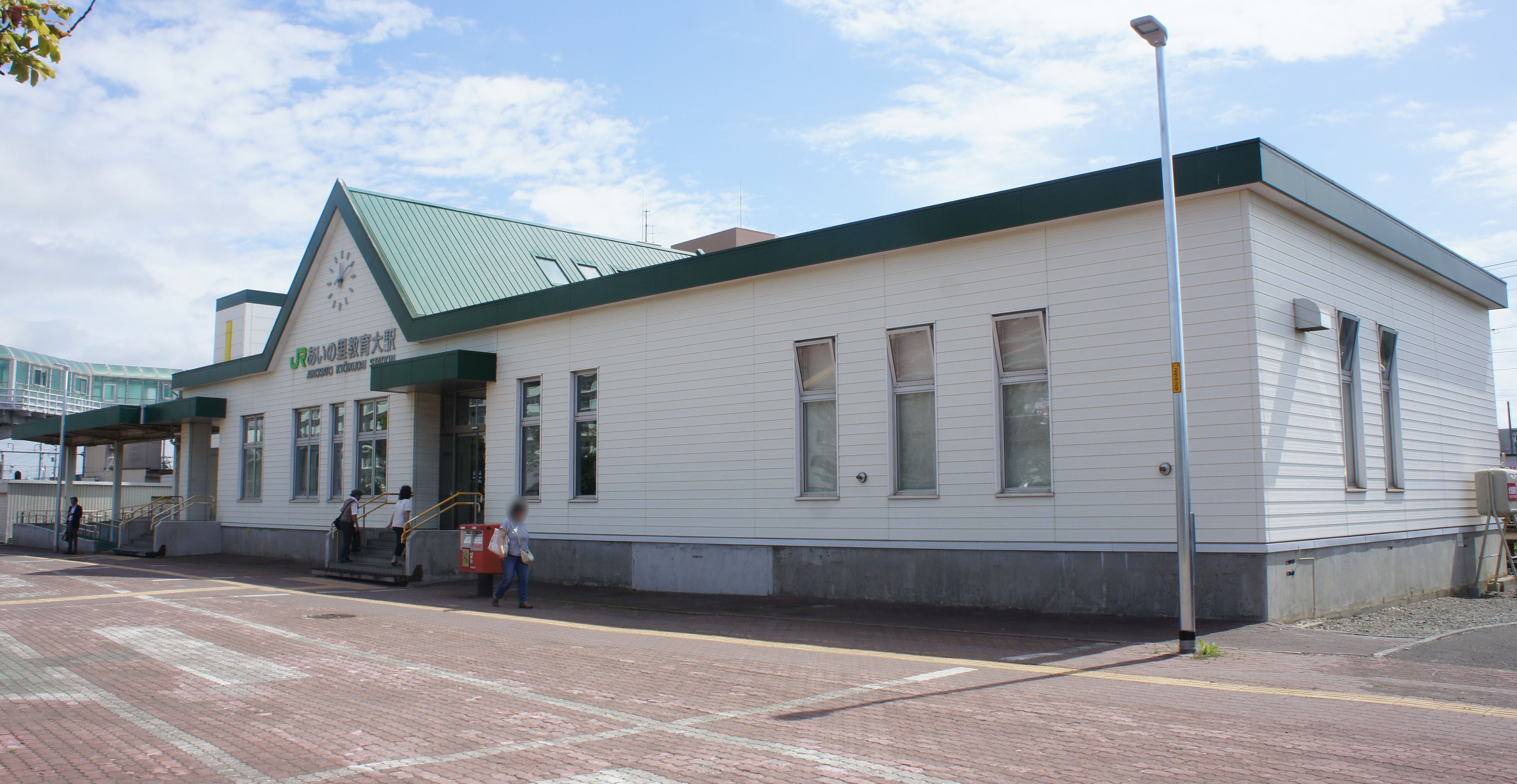 North Exit Station building of JR Sassho-Line Ainosato-Kyoikudai Station